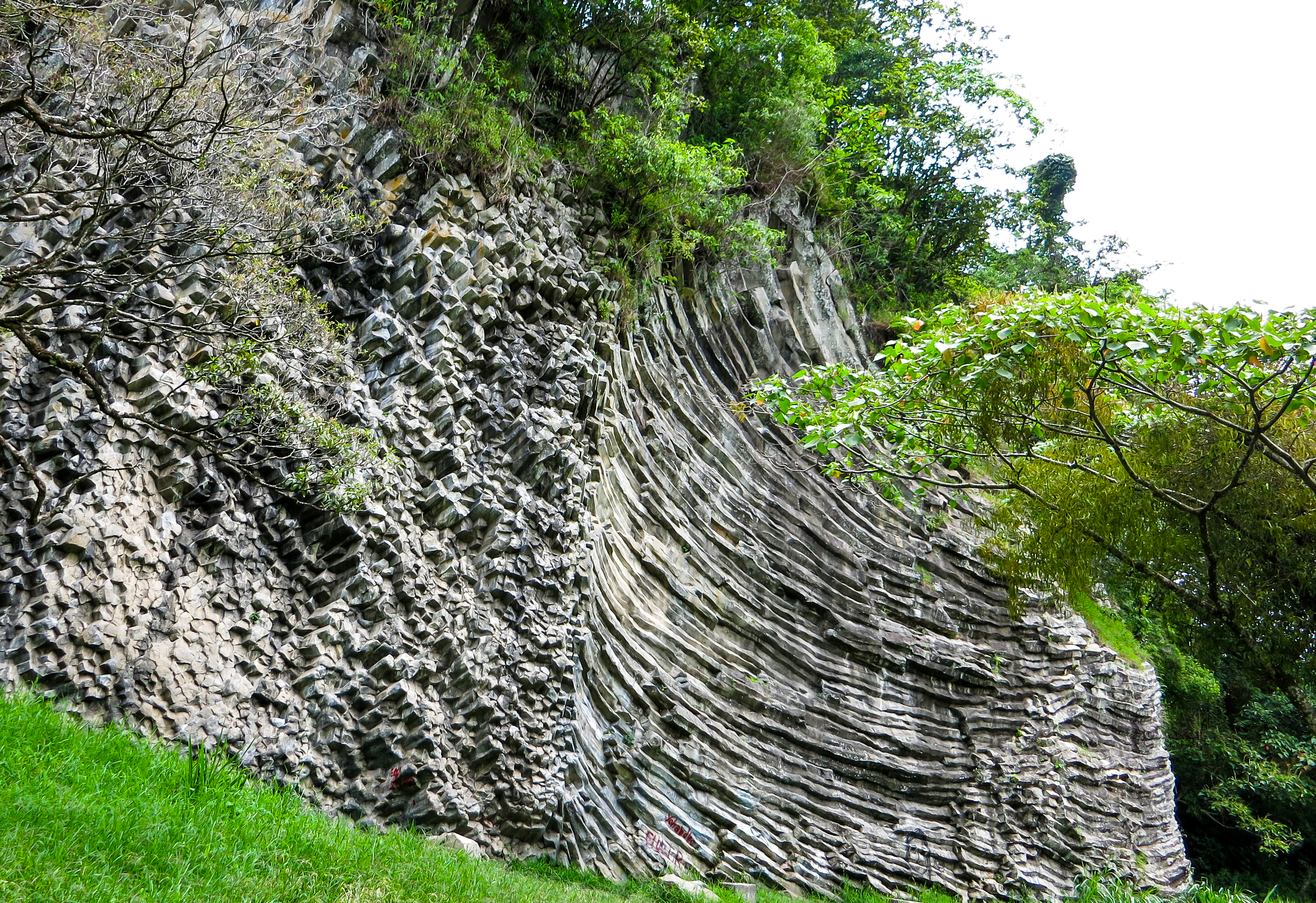 Challenging rock climbers in Boquete, Panama